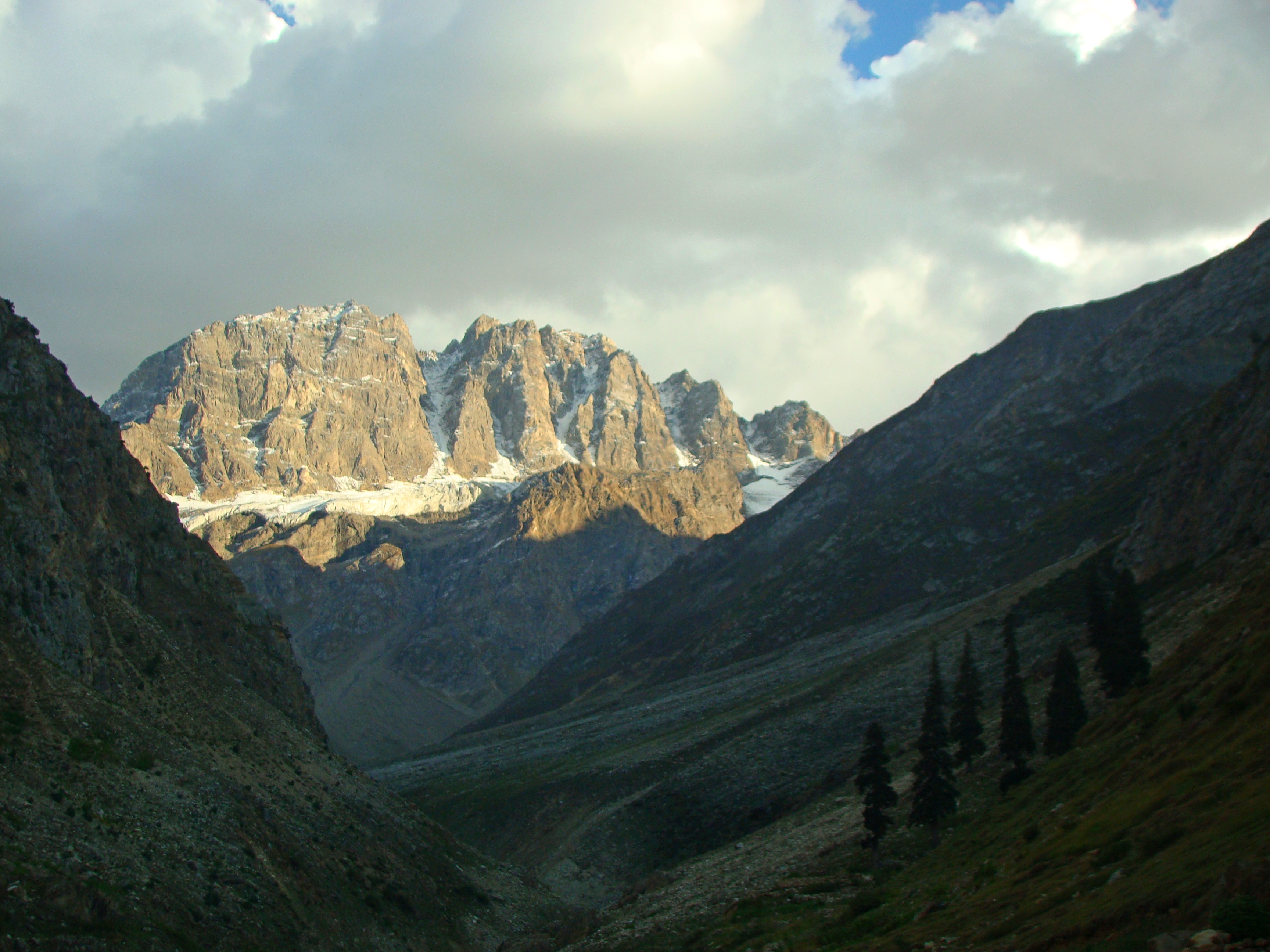 Lalazar, Kaghan Valley, KPK